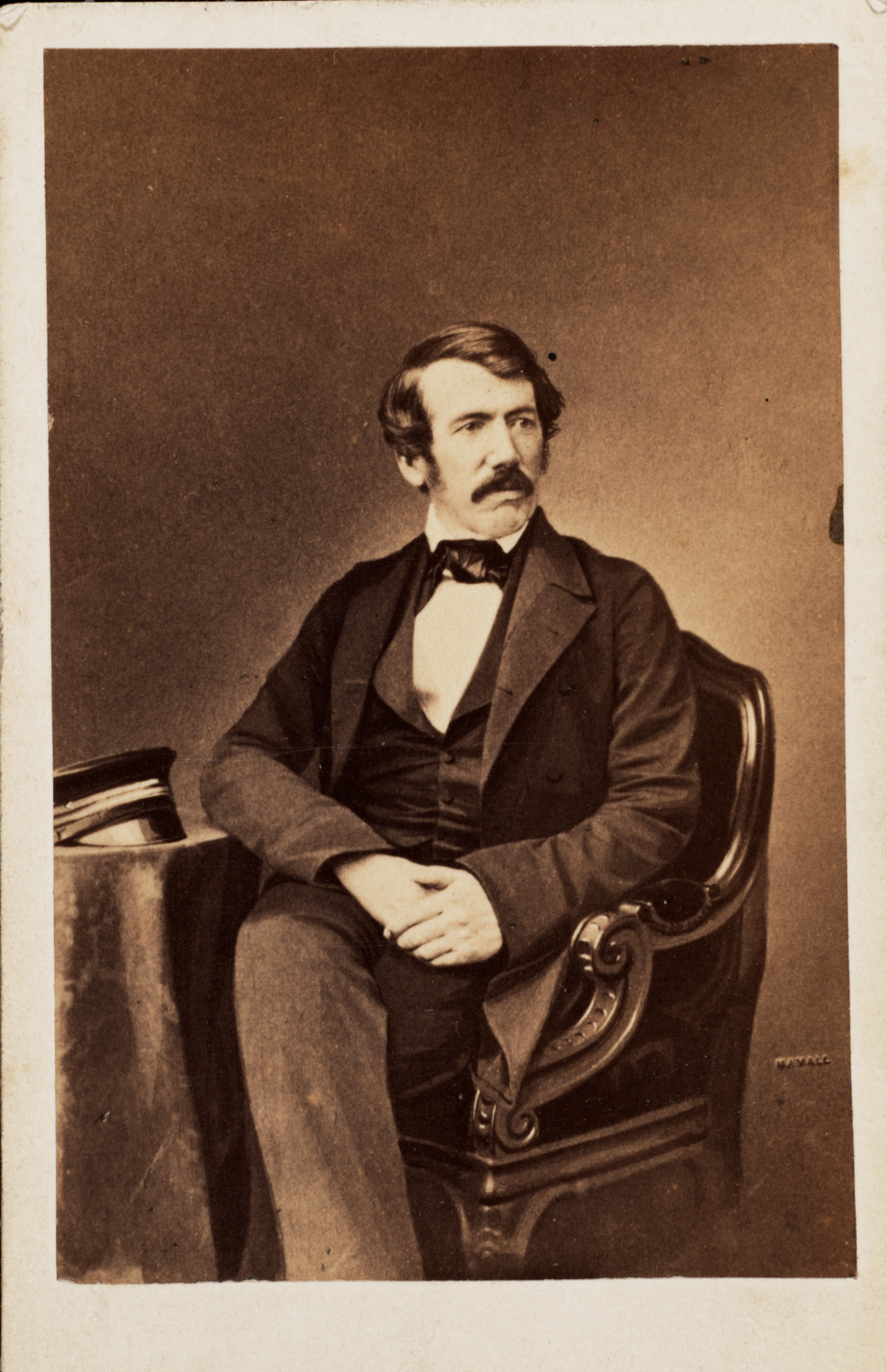 Description: David Livingstone and Henry Morton Stanley became celebrities in the eyes of a Victorian public captivated by their adventures. Livingstone's work as a medical missionary in southern Africa allowed him to pursue his passion for exploration. Creator/Photographer: John Jabez Edwin Mayall Birth Date: 1813 Death Date: 1901 Medium: Carte-de-visite Dimensions: 4 in x 2.5 in Persistent URL: Repository: Smithsonian Institution Libraries Collection: Russell E. Train Africana Collection - The Russell E. Train Africana Collection includes approximately 2,000 books and an extensive array of manuscripts, photographs, watercolors, sketches, maps, newspaper clippings, artifacts and other ephemera ranging from the late 18th to mid-20th centuries, with a concentration on items relating to early British and American explorers. The famous missionary David Livingstone and journalist Henry Stanley, as well as President Theodore Roosevelt, a renowned conservationist of his time, are well represented with numerous books by and about them, manuscript letters, privately printed materials, dozens of photographs and other ephemera. Some of the published books in the collection are presentation copies autographed by the author, while others have original artwork or engravings. Gift line: Gift of Russell E. Train Accession number: SIL28-318-01